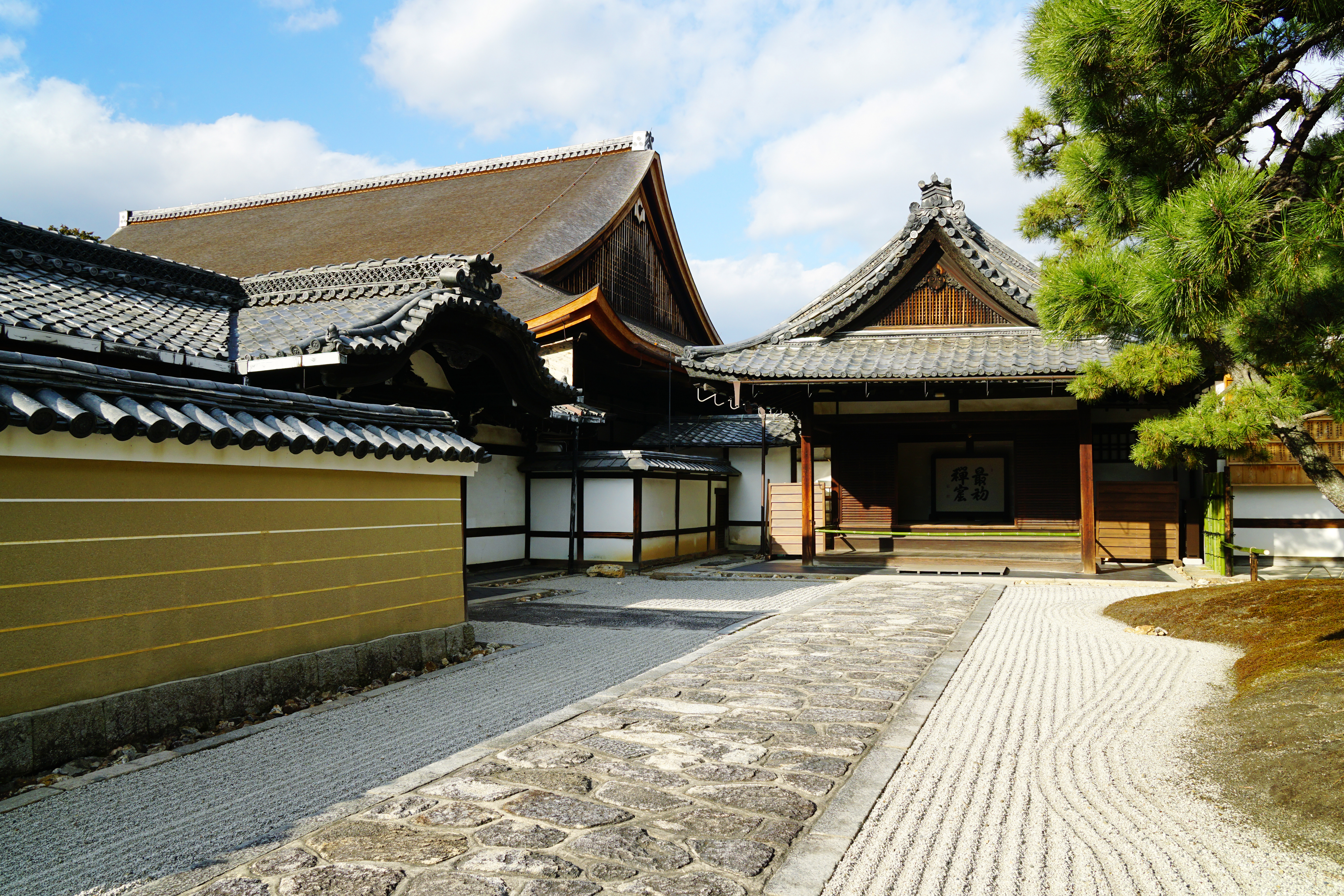 At Kennin-ji in Higashiyama-ku, Kyoto, Kyoto prefecture, Japan.